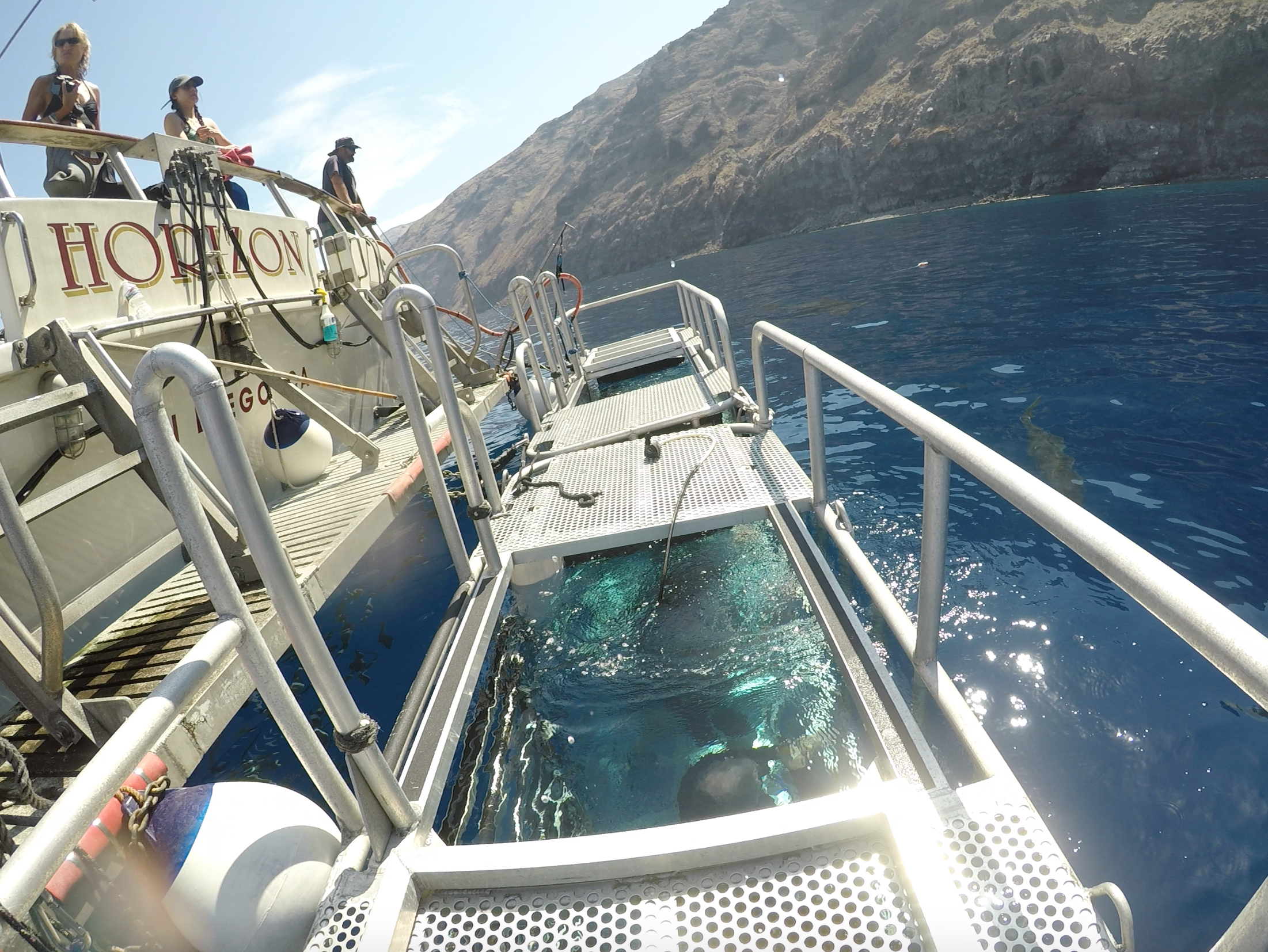 White shark cage diving at Guadalupe Island with the MV Horizon